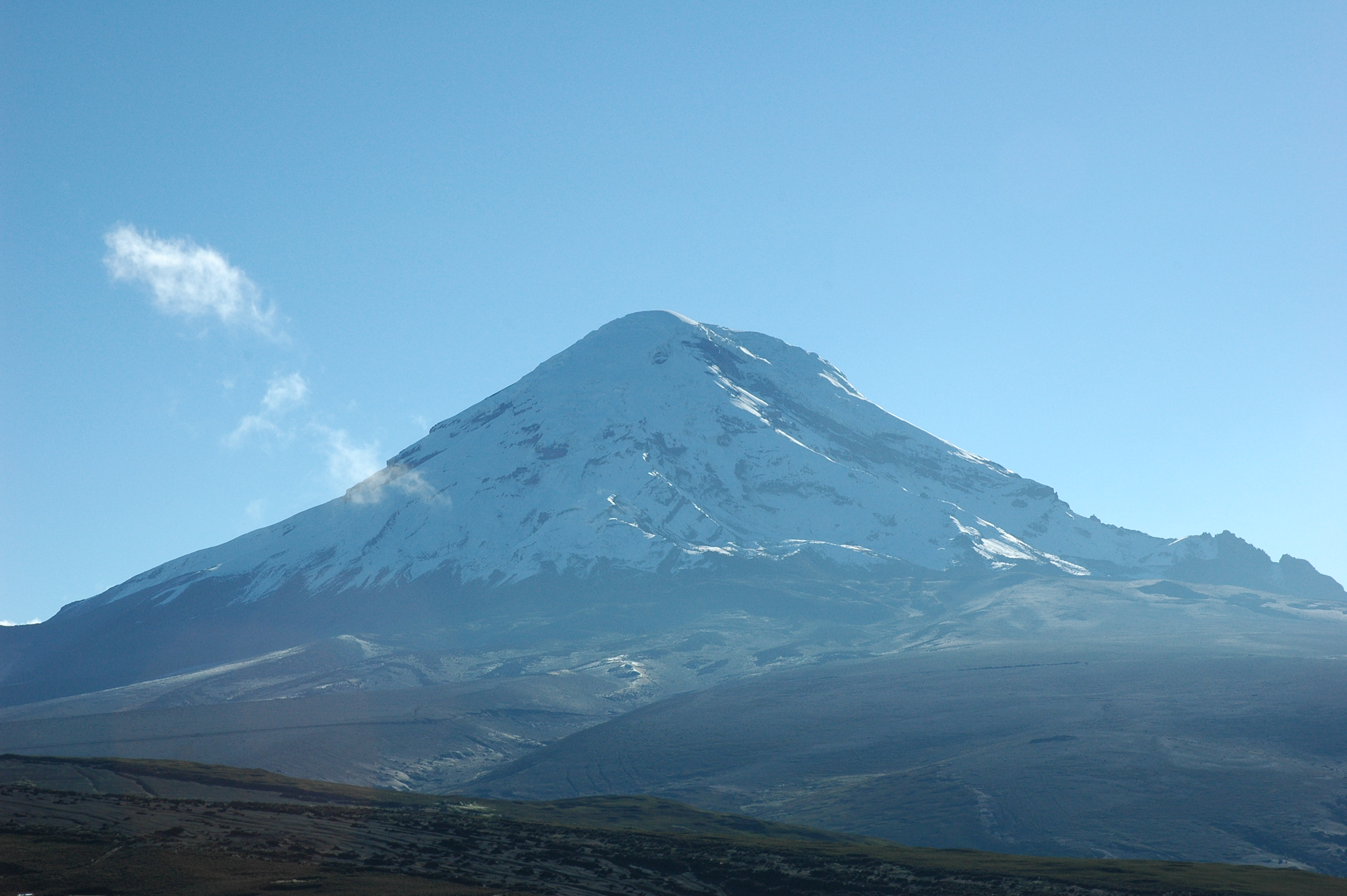 Volcano Chimborazo at sunset